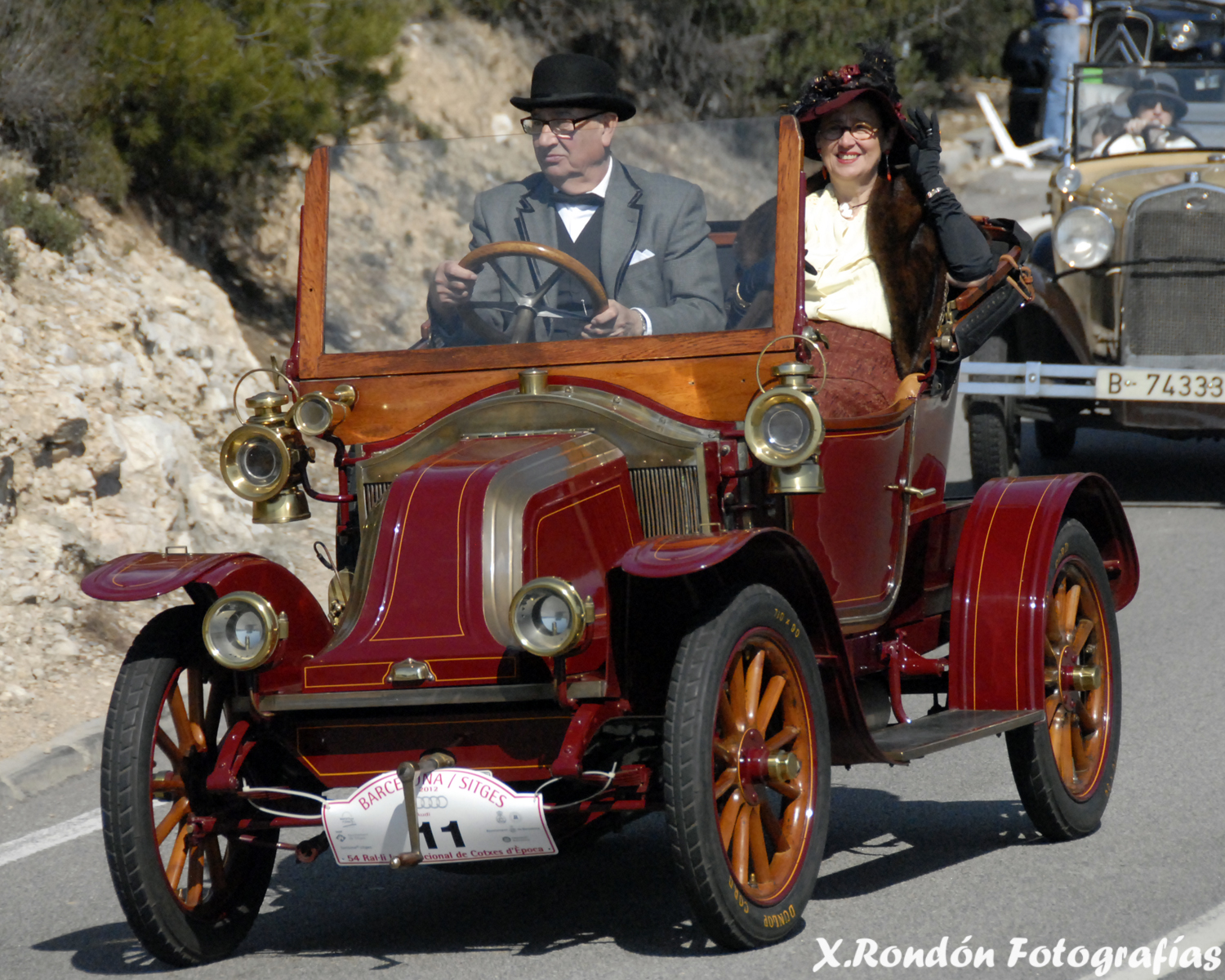 This image contains digital watermarking or credits in the image itself. The usage of visible watermarks is discouraged. If a non-watermarked version of the image is available, please upload it under the same file name and then remove this template. Ensure that removed information is present in the image description page and replace this template with metadata from image or attribution metadata from licensed image . Caution: Before removing a watermark from a copyrighted image, please read the WMF's analysis of the legal ramifications of doing so, as well as Commons' proposed policy regarding watermarks. If the old version is still useful, for example if removing the watermark damages the image significantly, upload the new version under a different title so that both can be used. After uploading the non-watermarked version, replace this template with superseded|new filename|version without watermarks .